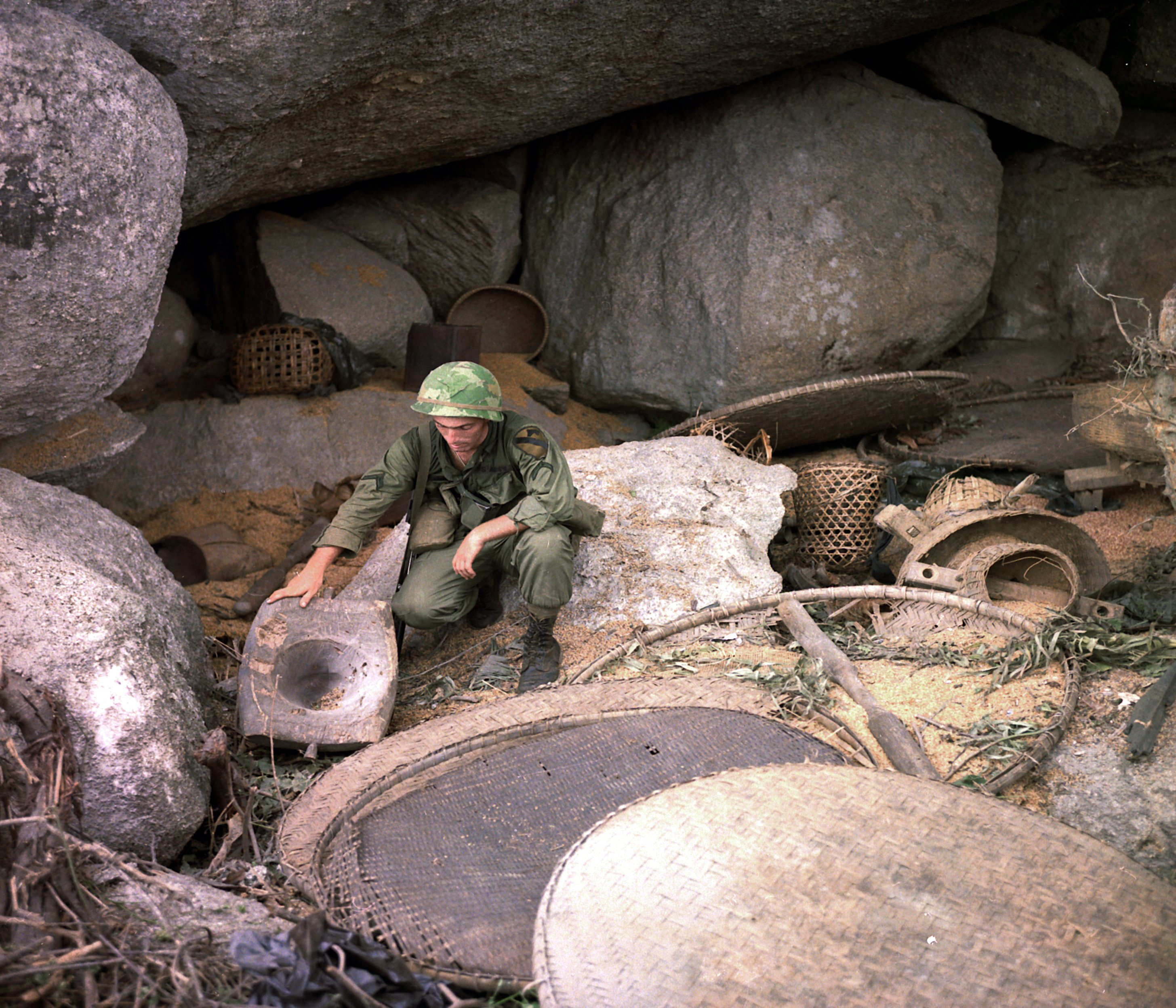 Elements of the Blue (rifle) Platoon, Troop B, 1st Squadron, 9th Cavalry, 1st Cavalry Division (Airmobile), "Eyes and ears of the Division," conduct combat assault missions against the Viet Cong and North Vietnamese troops in the An Lao Valley in conjunction with Operation "Pershing." Private First Class Carl D. Demarco (Hawthorne, N.Y.), infantryman, searches a destroyed Viet Cong supply cave